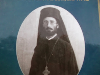 Greek Archimandrite Ioakim Lioulias. Executed by the Nazis on July 2, 1943 in the capital city of Macedonia, Thessaloniki, among 49 other members of Greek Resistance (“Communist bandits”, according to the terminology of German occupation authorities)